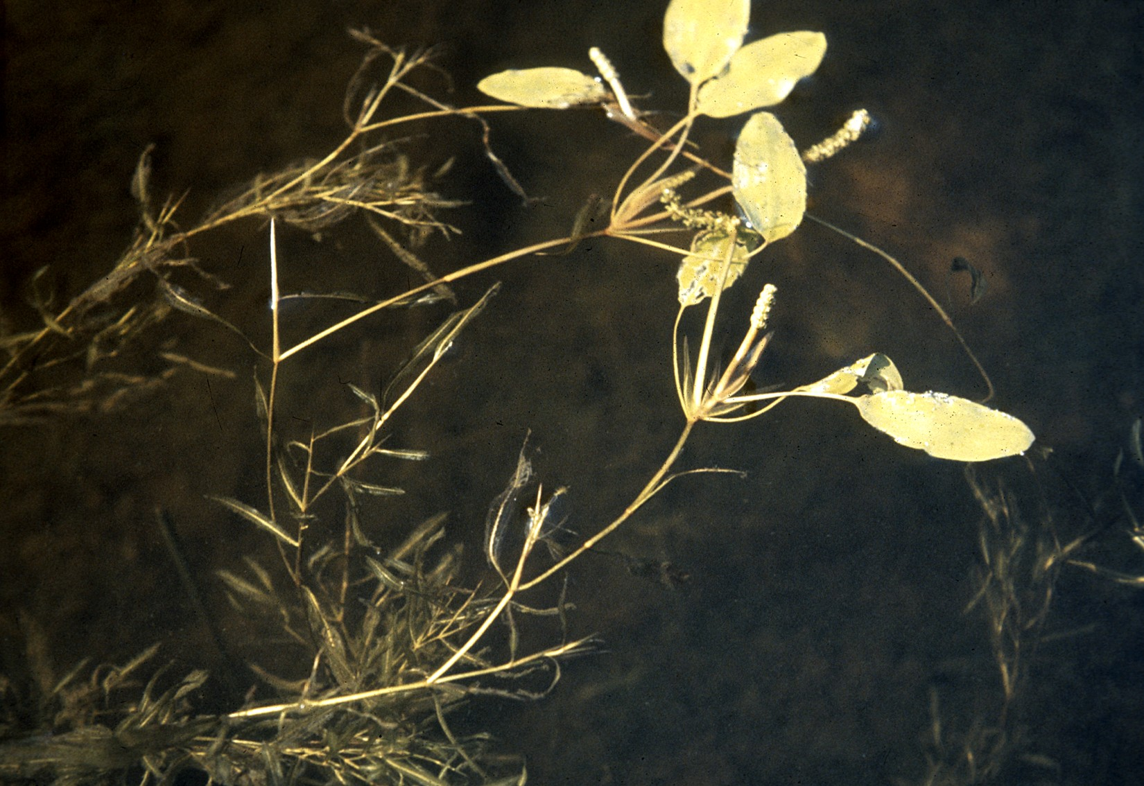 Potamogeton gramineus